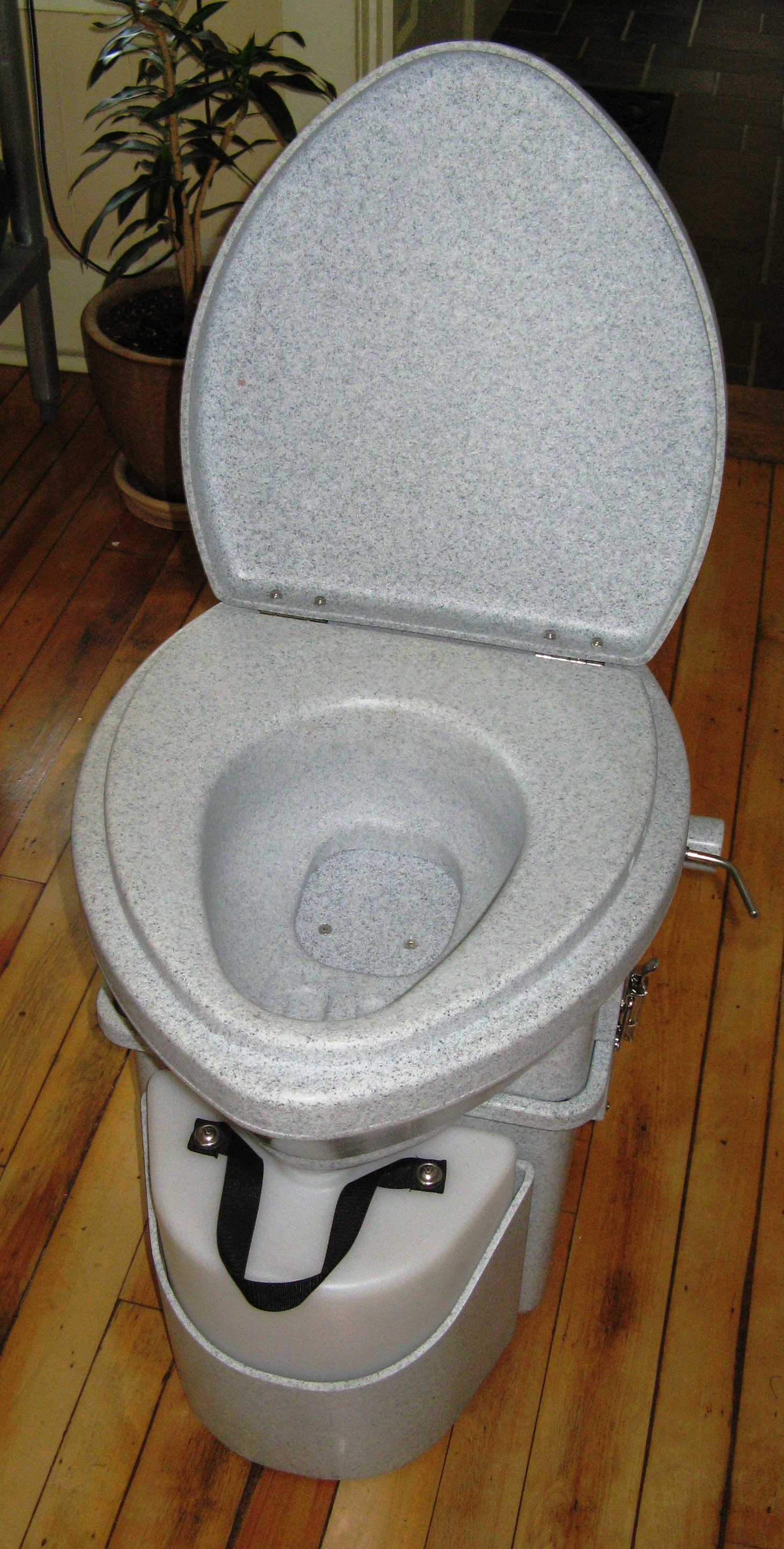 Nature's Head urine diverting dry toilet in elevated one quarter profile to the left.